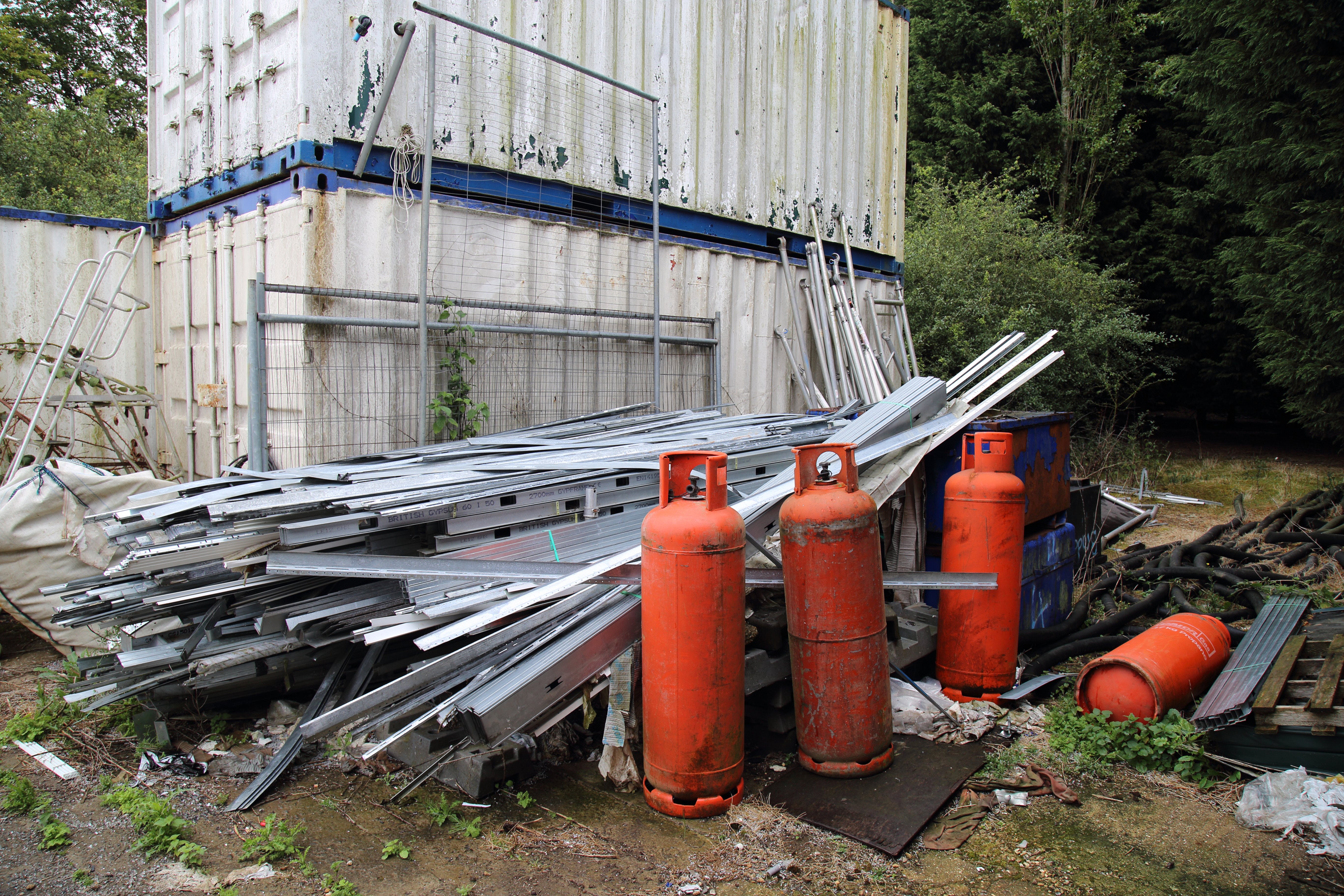 Aluminium waste and Liquefied Petroleum Gas cylinders at the north of the civil parish of Hatfield Broad Oak in Essex, England